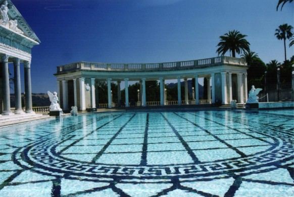 Another angle of the famous Hearst pool, with a view of artifacts dating back to ancient Rome. Photography by Googie Man